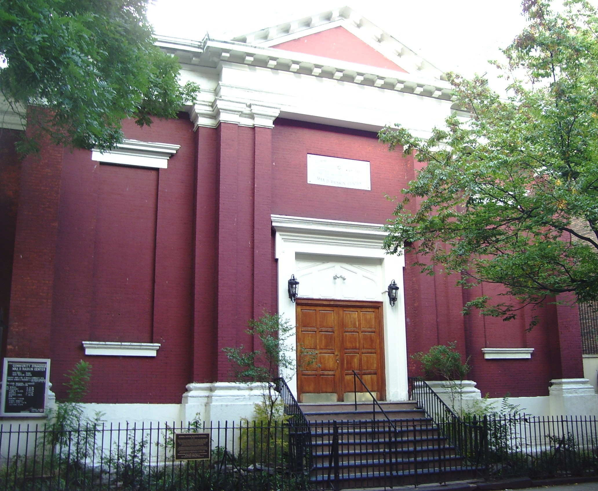 The Community Synagogue Max D. Raiskin Center at 323 East 6th Street between First and Second Avenues in the East Village, Manhattan, New York City was built c.1847 in the Greek Revival style. Until 1940 it was a branch of German St. Matthew's Lutheran Evangelical Church, a mostly German immigrant parish. On June 15, 1904 1,200 parishioners and friends were killed when the PS General Slocum caught fire and sank in the East River. The building was sold to the newly-formed Community Synagogue in 1940. It is located within the East Village/Lower East Side Historic District (Sources: "East Village/Lower East Side Historic District Designation Report", AIA Guide to NYC (4th ed.) and historical plaque on the fence of the building)